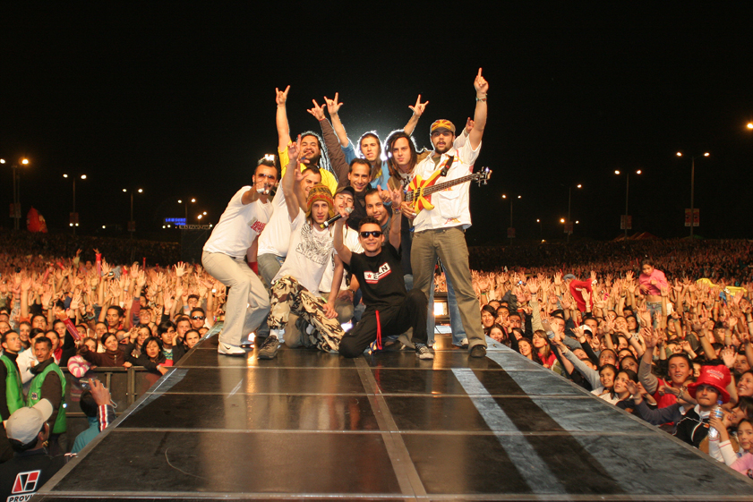 Doctor Krapula rock band